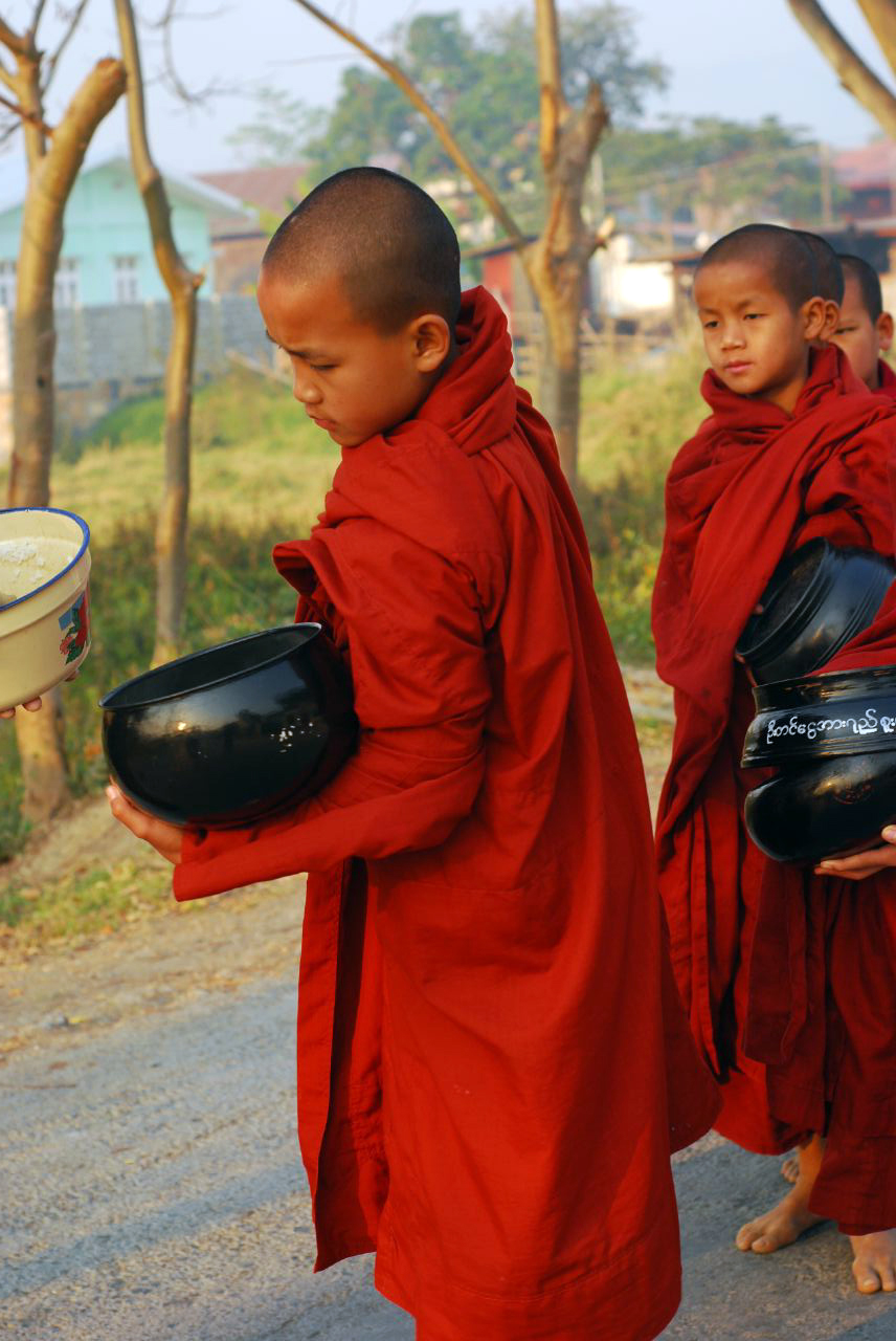 Novices receive alms, Nyaungshwe, Myanmar မြန်မာဘာသာ: ညောင်ရွှေမြို့၌ ဆွမ်းခံတောင်းနေကြသည့် ကိုရင်များကို တွေ့ရစဉ်